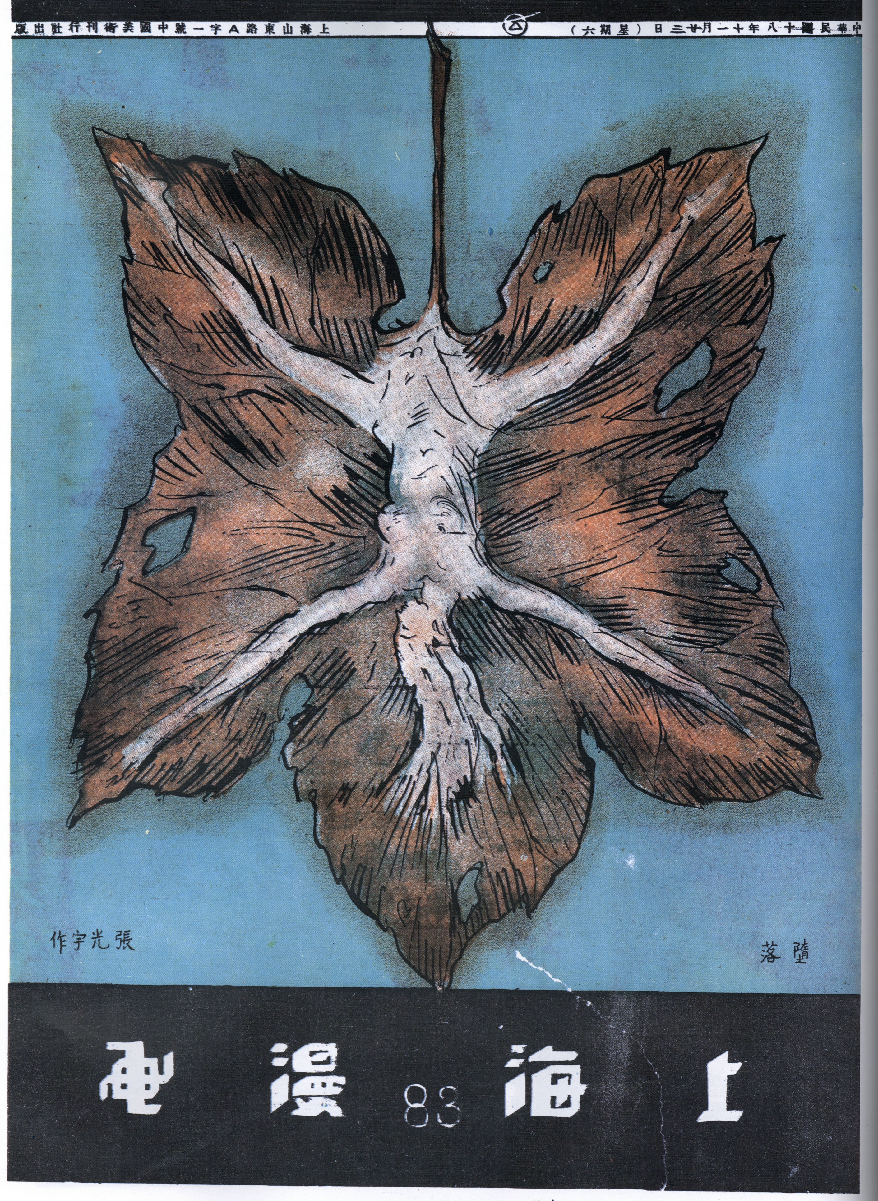 Cover for Shanghai Manhua issue 83 (Nov. 23, 1929)